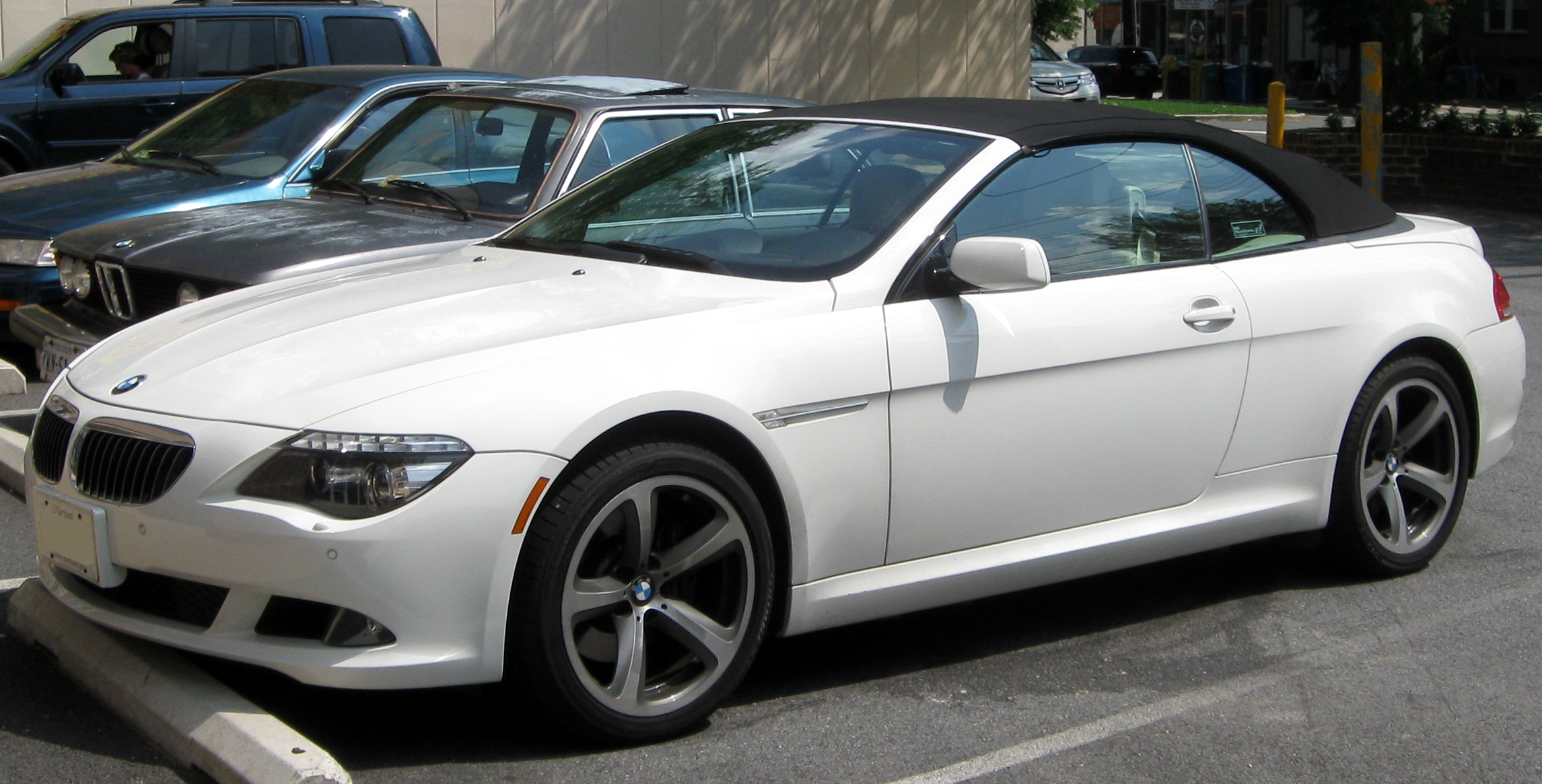 BMW 650Ci photographed in Washington, D.C., USA.